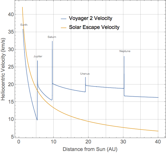 Plot of Voyager 2 velocity relative to the solar system barycenter, along with a plot of the solar system escape velocity at the distance of Voyager at the same time. This corrects the incorrectly drawn plot originally sourced from NASA's "Basics of Space Flight".